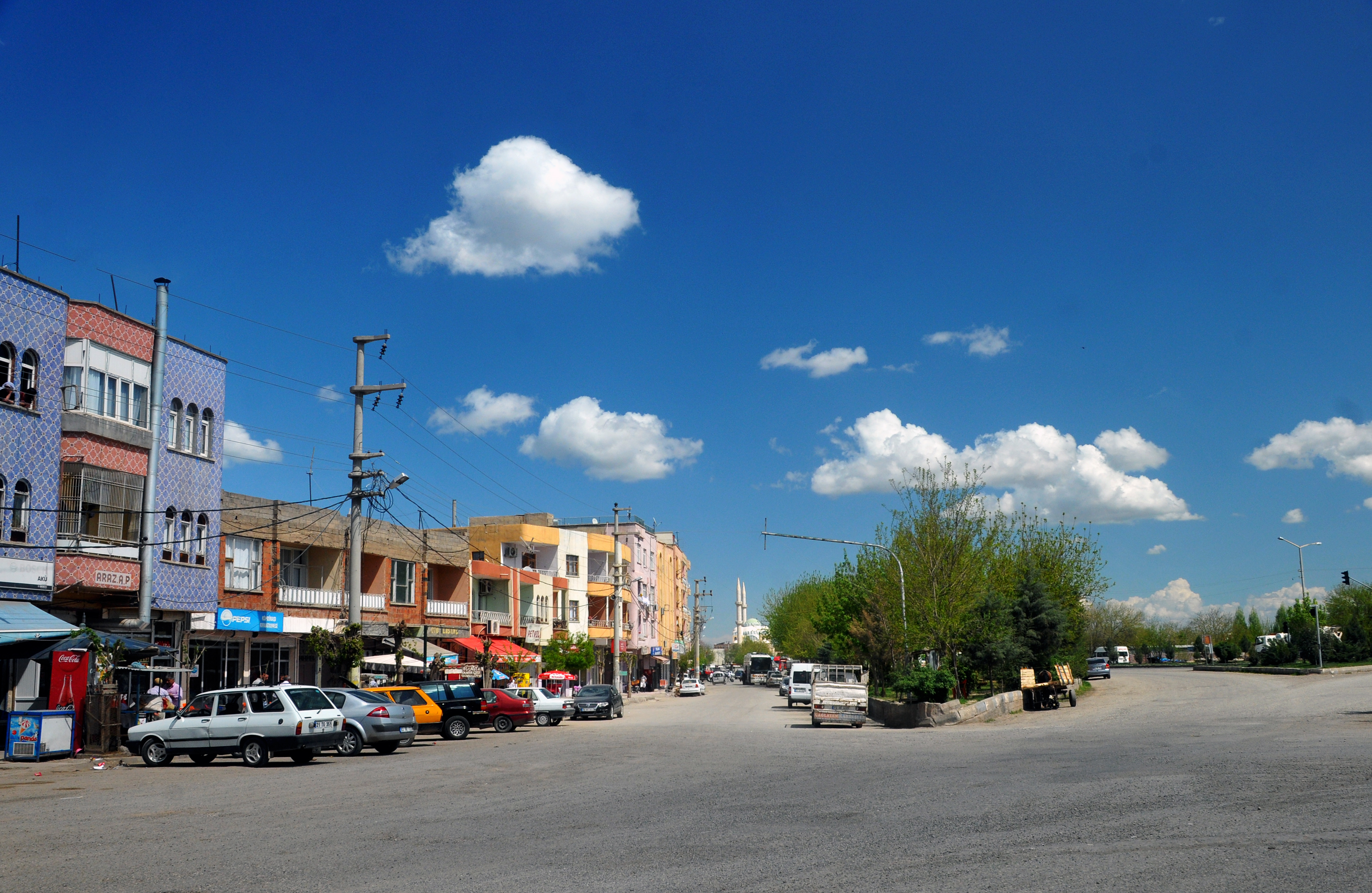 Bismil